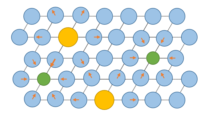 The orange arrows indicate direction and extent of the displacement, from their original positions in the lattice, of the atoms surrounding the substitutional sites (they are attracted or repelled the basis of the substitutional atom radius); the dashed lattice helps the reader to detect such displacement.